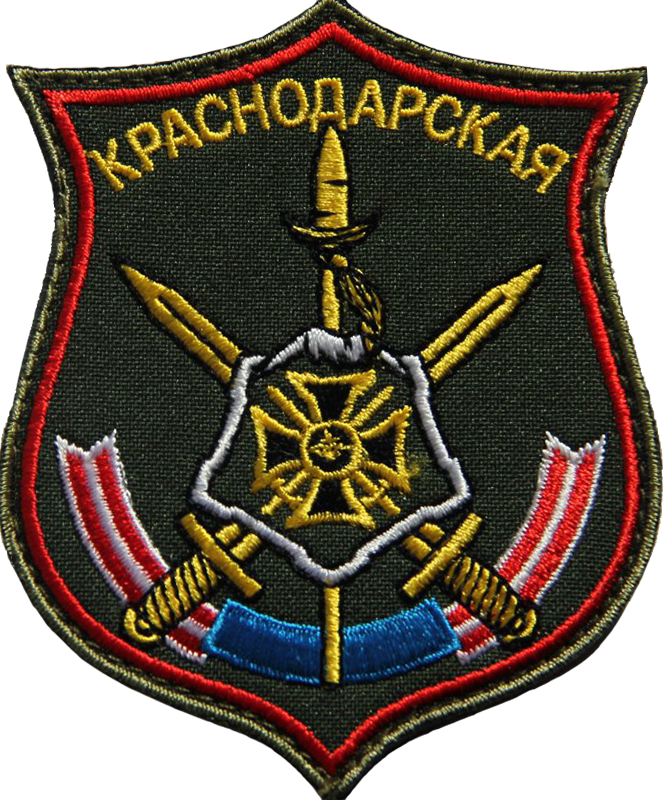 7th Military Base shoulder sleeve insignia (Russia)